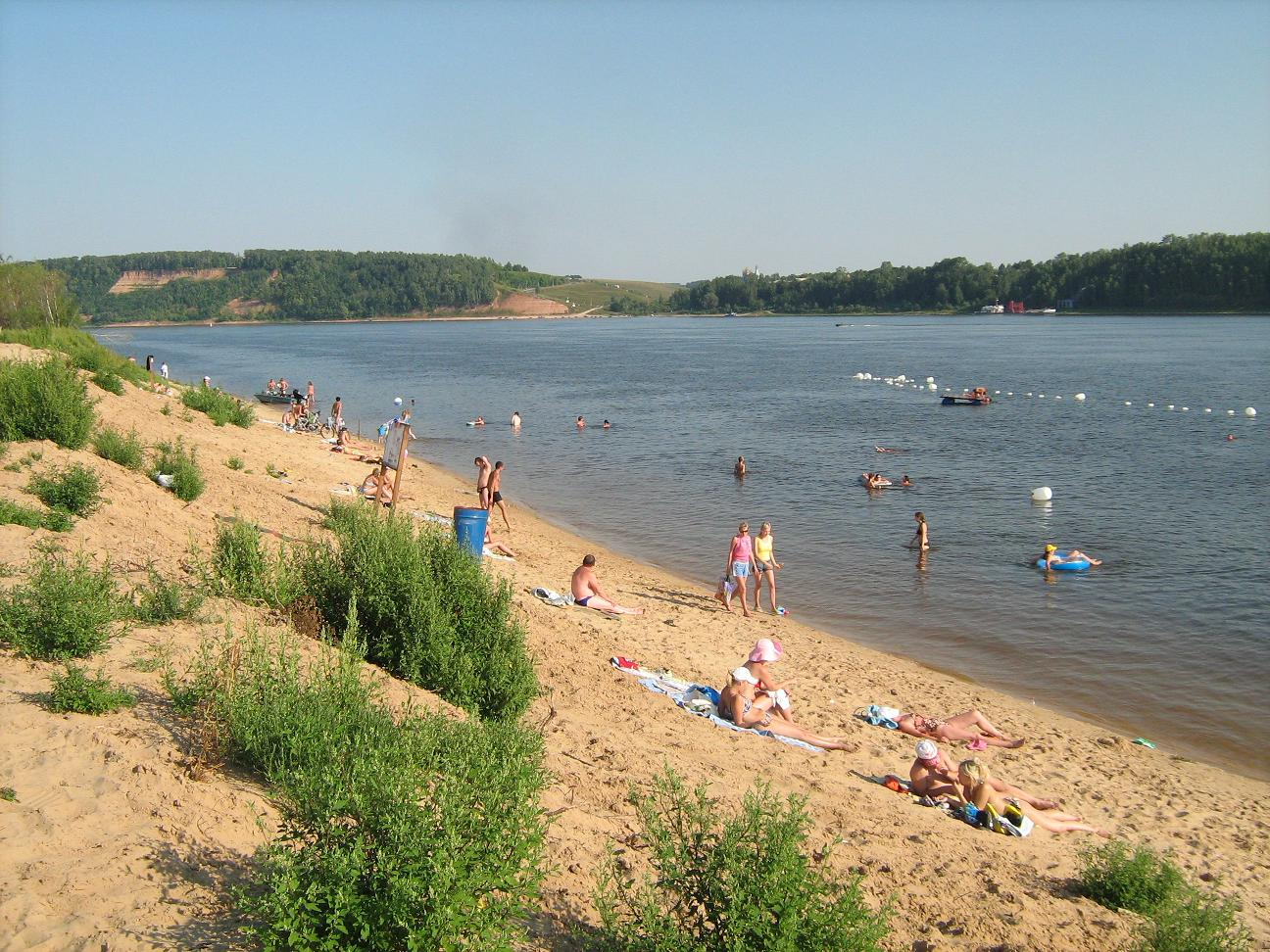 At Kstovo's public beach (north bank of the Volga, across the river from the city). Zimenki Hill, the Church of Our Lady of Kazan in Veliki Vrag, and one of Lukoil's oil tanker terminals can be seen on the south bank.